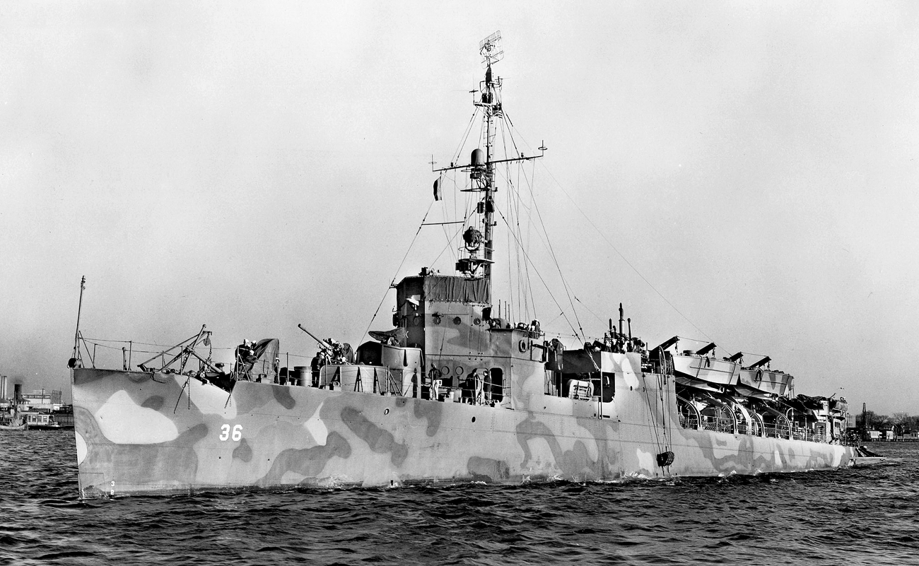 The U.S. Navy high-speed transport USS Greene (APD-36) at Naval Station Norfolk, Virginia (USA), on 24 January 1945. She is painted in Camouflage Measure 31, Design 20L.